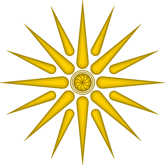 Vergina Sun - Golden Larnax